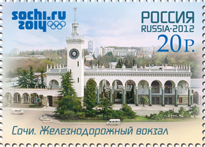 XXII Olympic Winter Games in Sochi. Russian Black Sea coast tourism 2